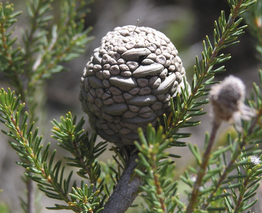 Fruiting head of Banksia pulchella, near Fisheries Road, Myrup, Western Australia